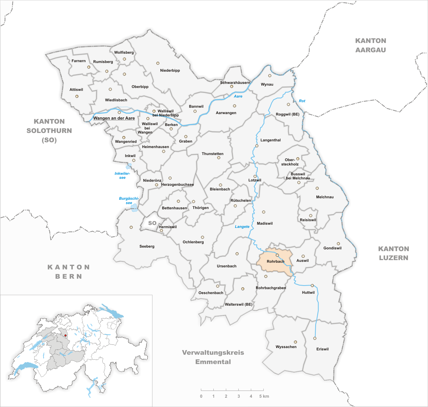 Municipality Rohrbach